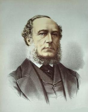 Chromolithograph of John Walter 1818–1894) from Illustrious and Eminent Personages of the 19th Century (National Portrait Gallery, 1880)